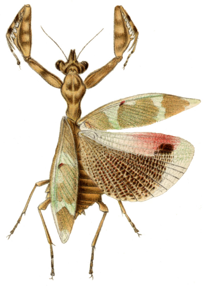 Adult female Callibia diana